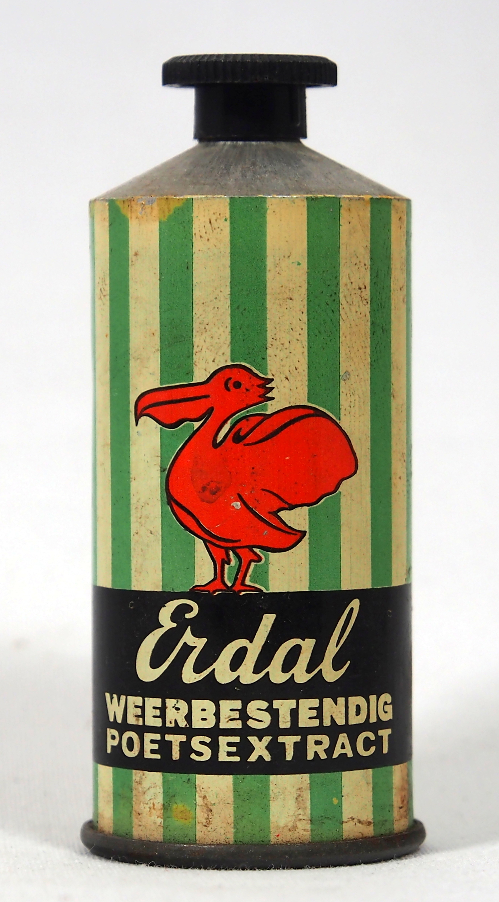 Very old packaging of a Dutch product that is not produced and not sold any more. Photographed at a collector of Droste. For info see tincollectors.nl or